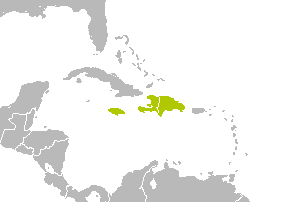 Range map of the Golden swallow (yellow).